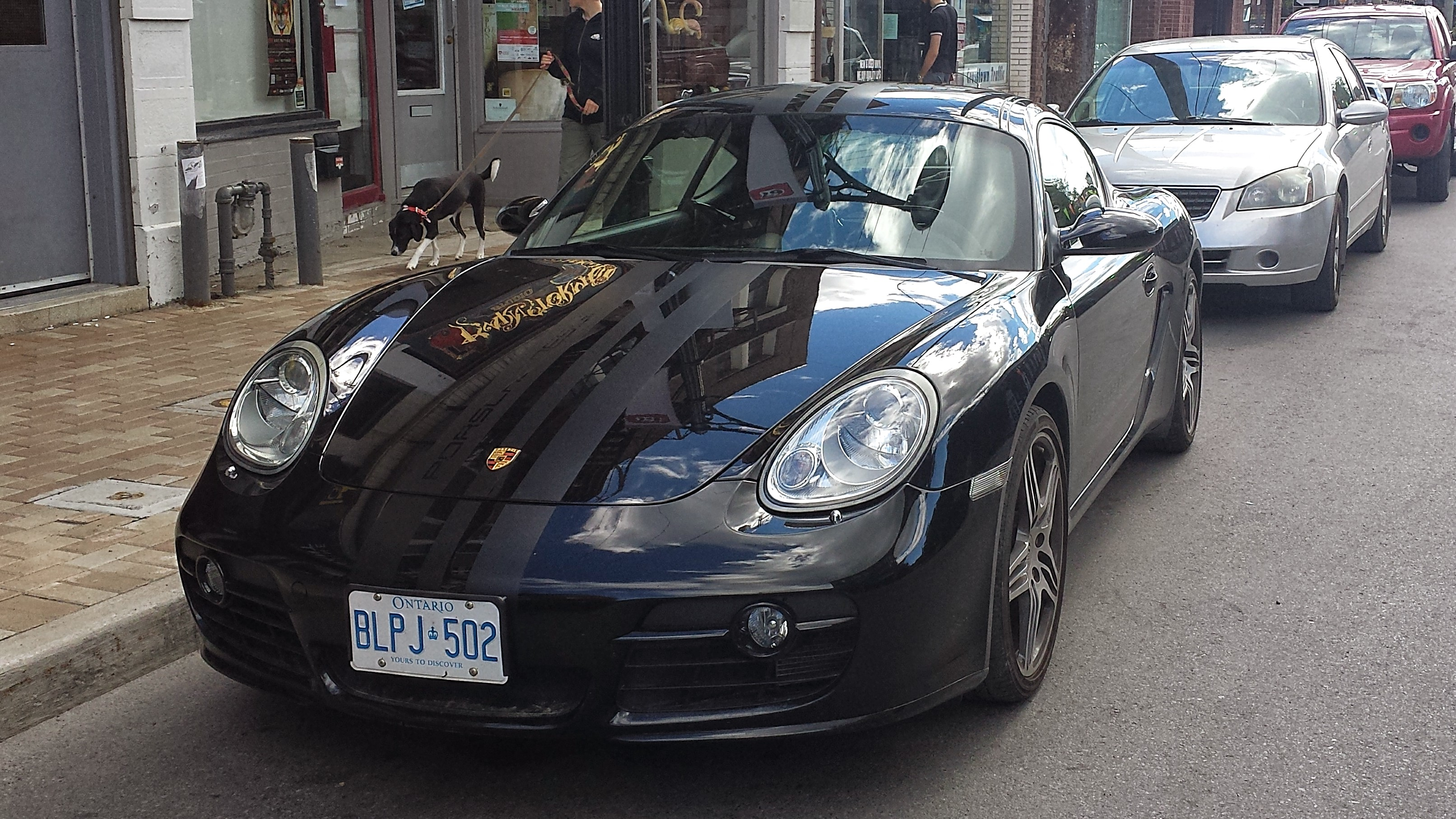 Porsche Cayman S Porsche Design Edition 1